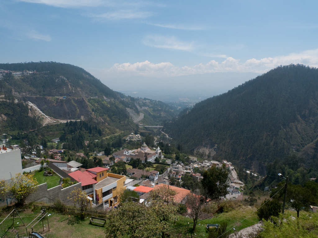 Guápulo